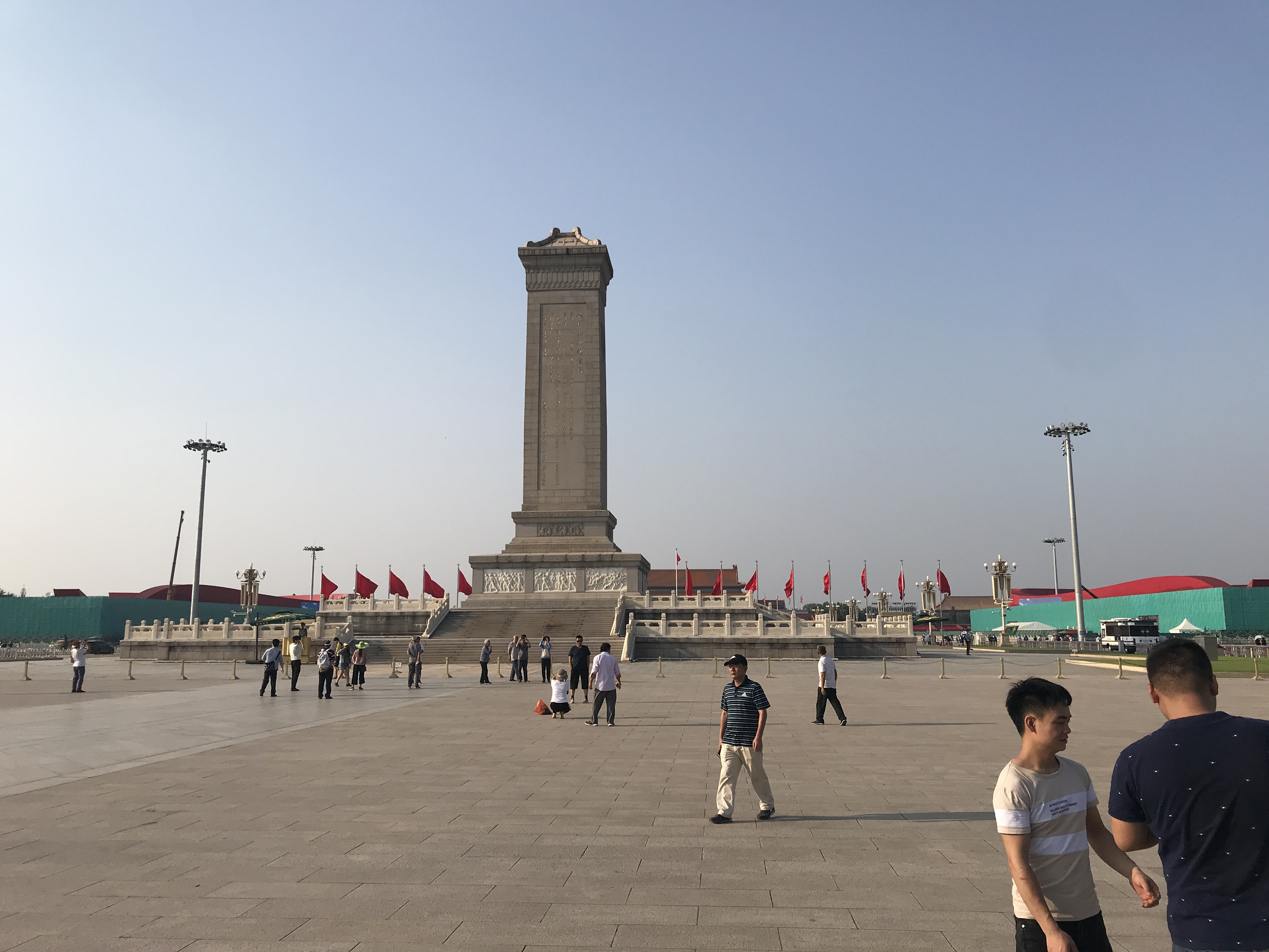 Tiananmen Square 70 National Day Preparations